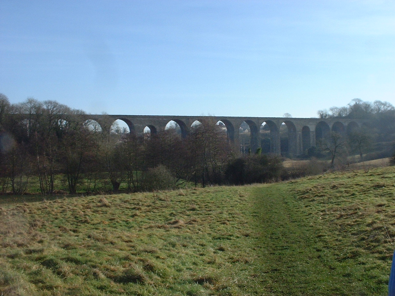 Pensford Viaduct (disused). Taken by Rod Ward 2nd Jan 2006